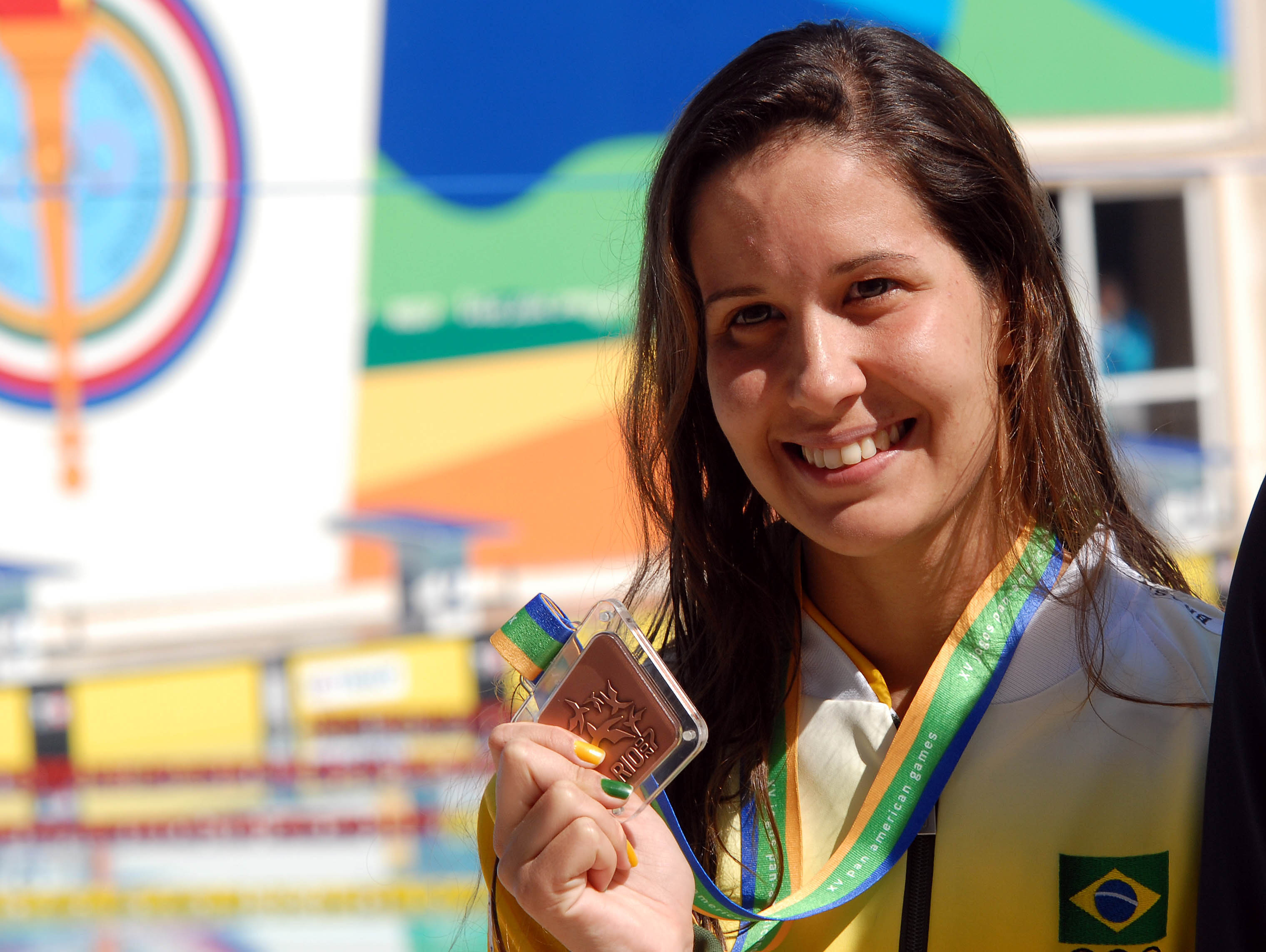 Brazilian swimmer Monique Ferreira finishes third (bronze medal) in Women's 200m freestyle at the 2007 Pan American Games